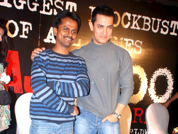 Murugadoss with Amir Khan